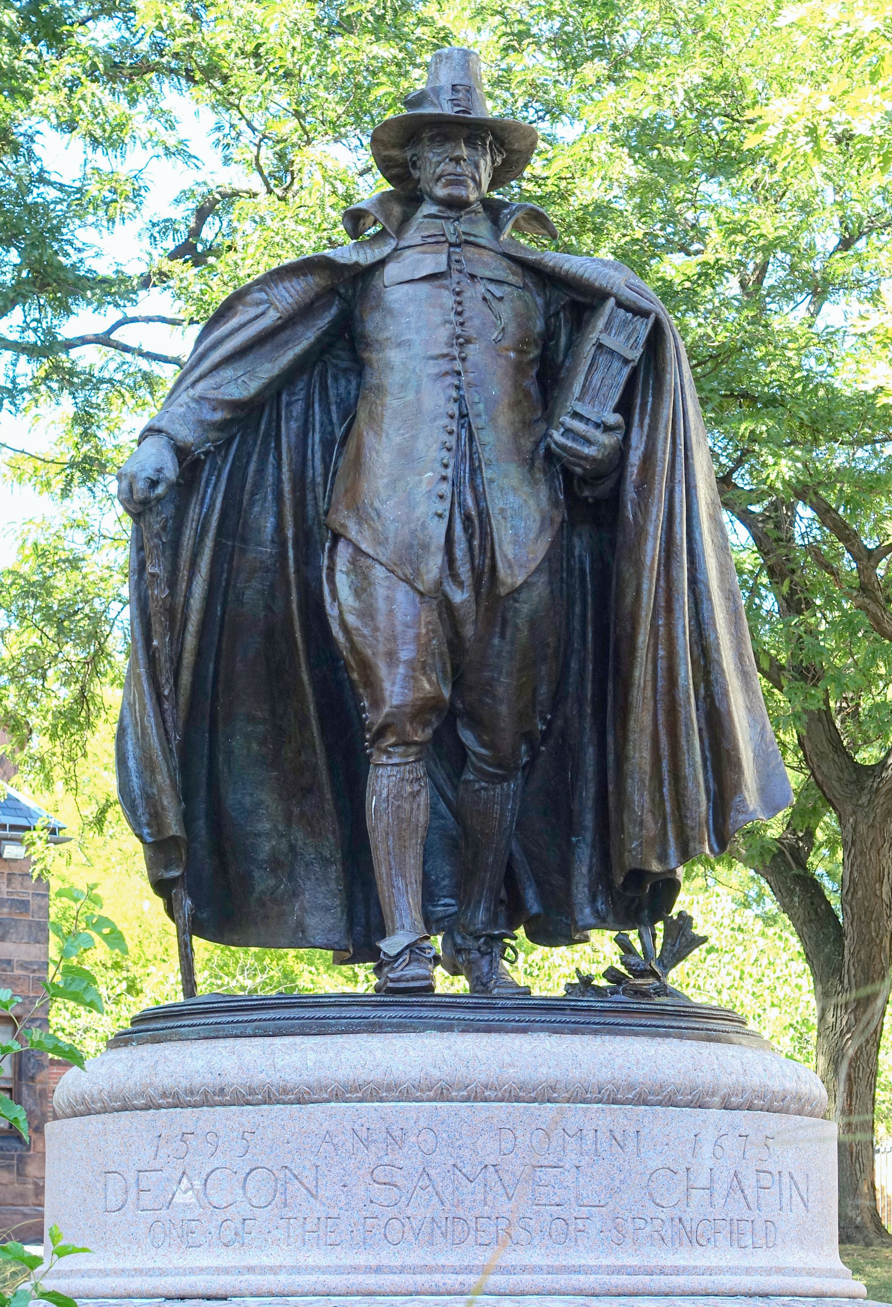 The Puritan by Augustus Saint-Gaudens - Springfield, Massachusetts, USA. This artwork is in the public domain because the artist died more than 100 years ago.